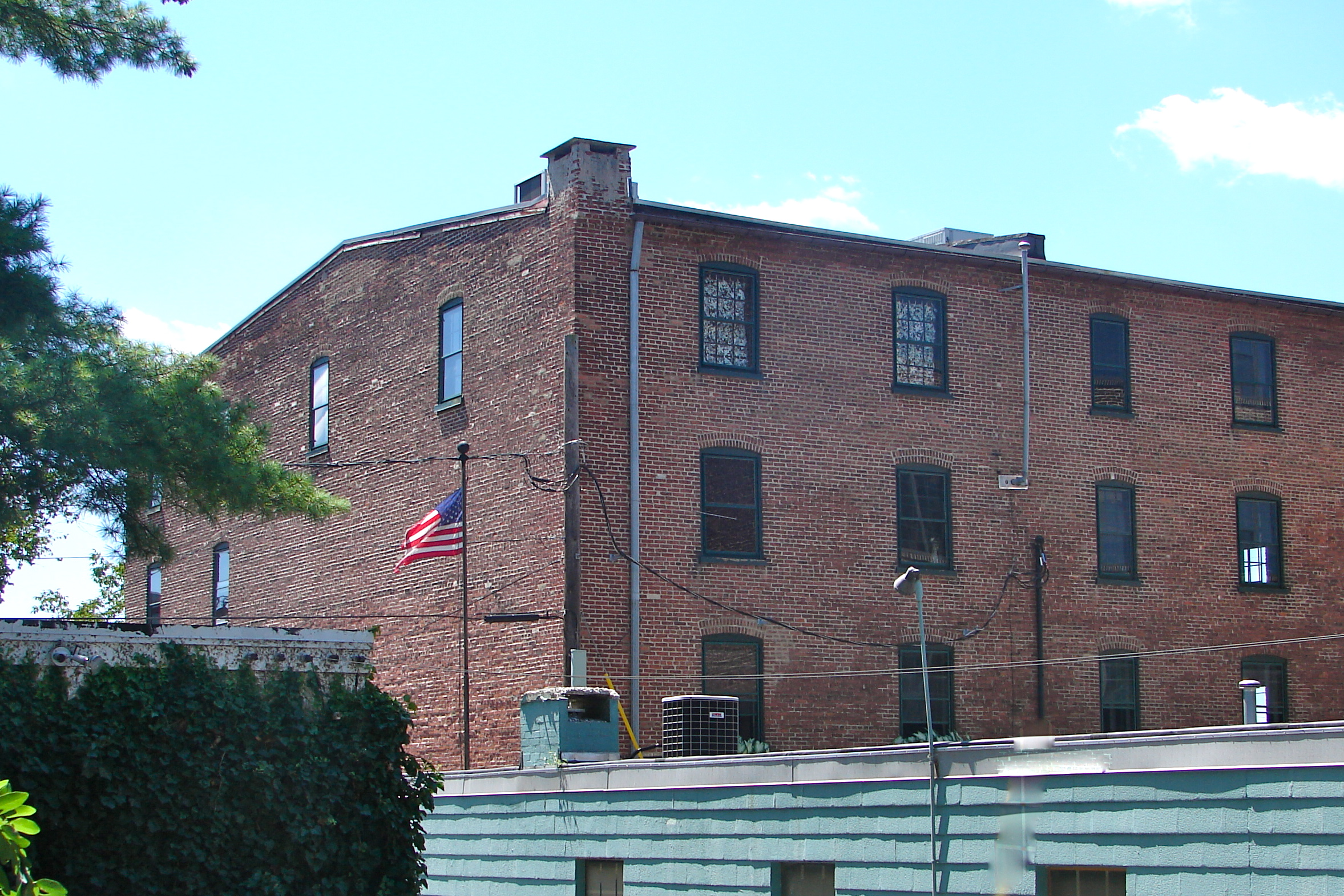 Jacob Bowman Tobacco Warehouse on the NRHP since September 21, 1990. At 226–230 East Grant Street, in the Musser Park neighborhood (fairly near downtown), in Lancaster, Pennsylvania. Part of the NRHP multiple submission for tobacco industry buildings in Lancaster